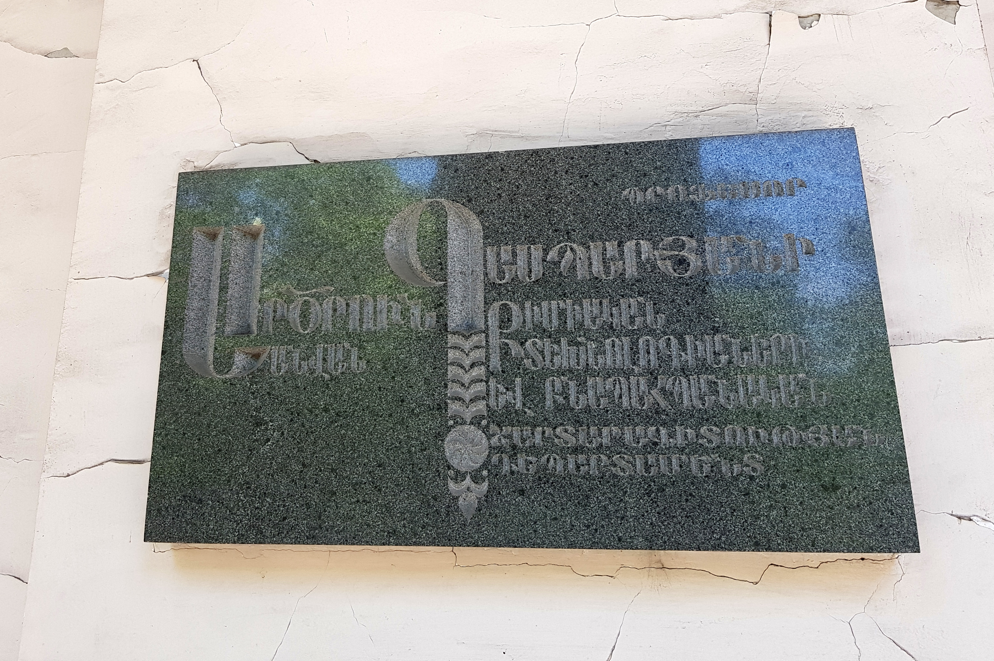 Plaque on the name of Artsrouni Gasparyan on the building of Chemical Technologies Department